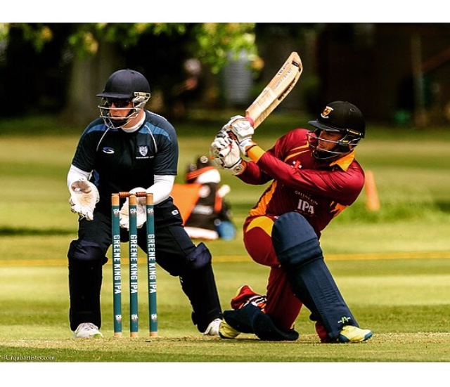 Jake Foley on his way to 50 batting for Suffolk CCC